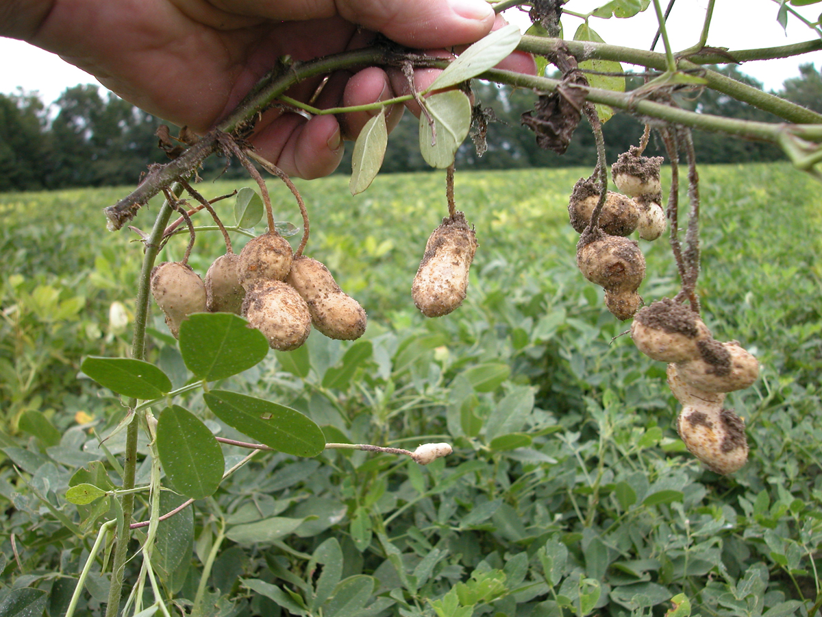 Peanut leaves and freshly dug pods Stuckey, South CarolinaBân-lâm-gú: Tôo-tāu-hio̍h kah tú óo khí-lâi--ê tshenn-tāu-ngeh. 塗豆葉佮拄挖起來的生豆莢。